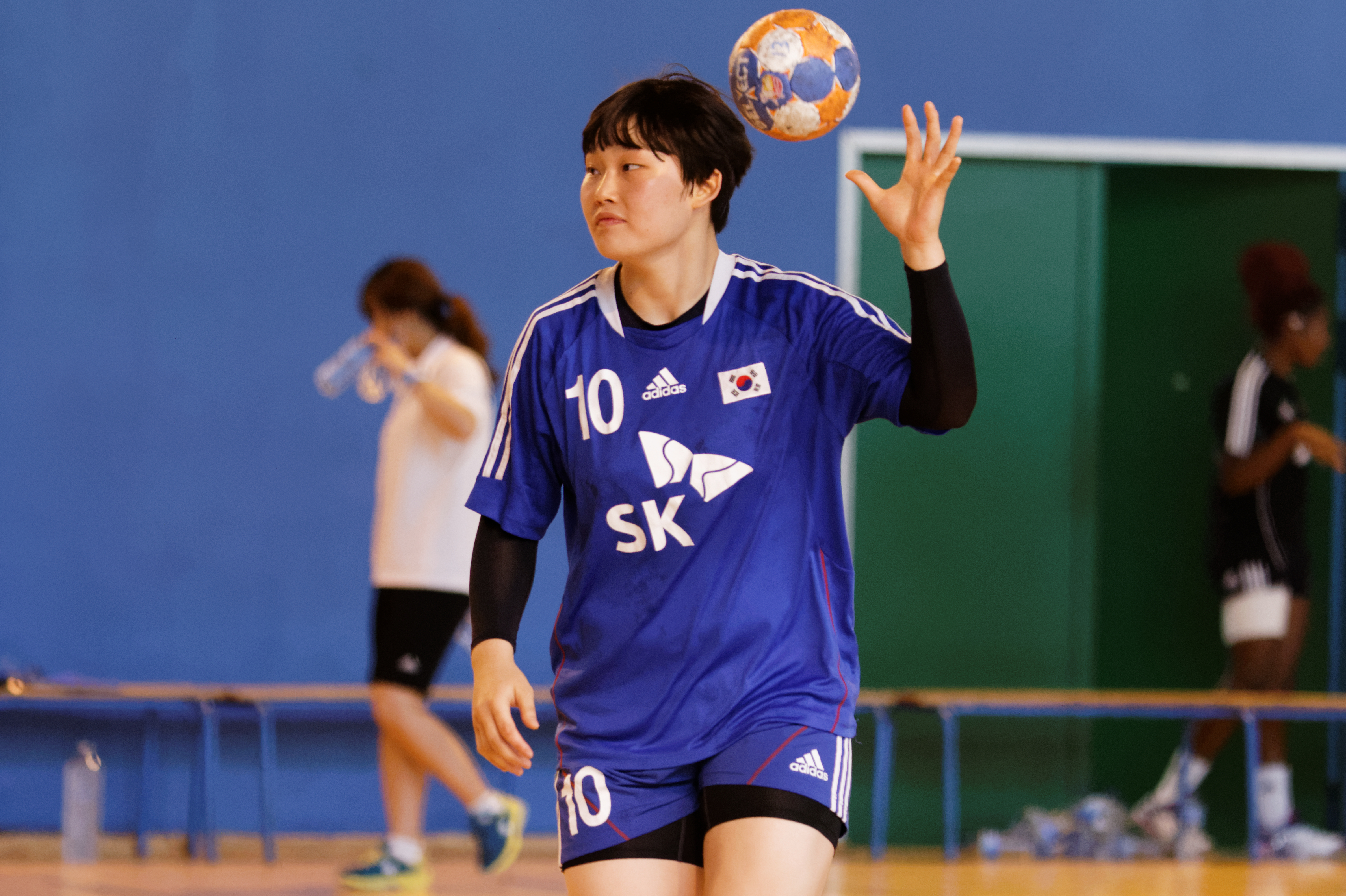 Issy Paris Hand - South Korea, 12 August 2014